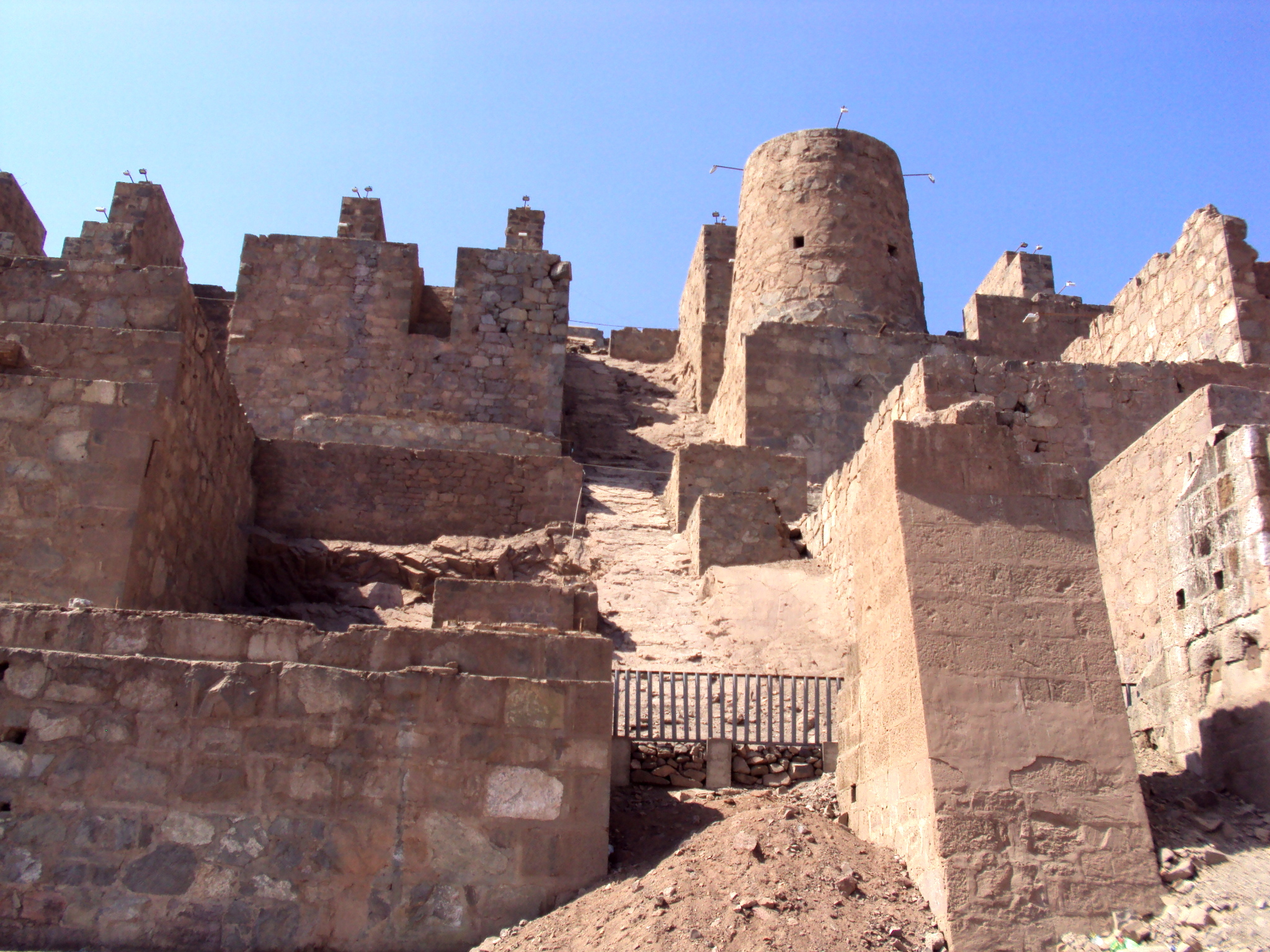 This is a photo of a national monument in Chile: 545